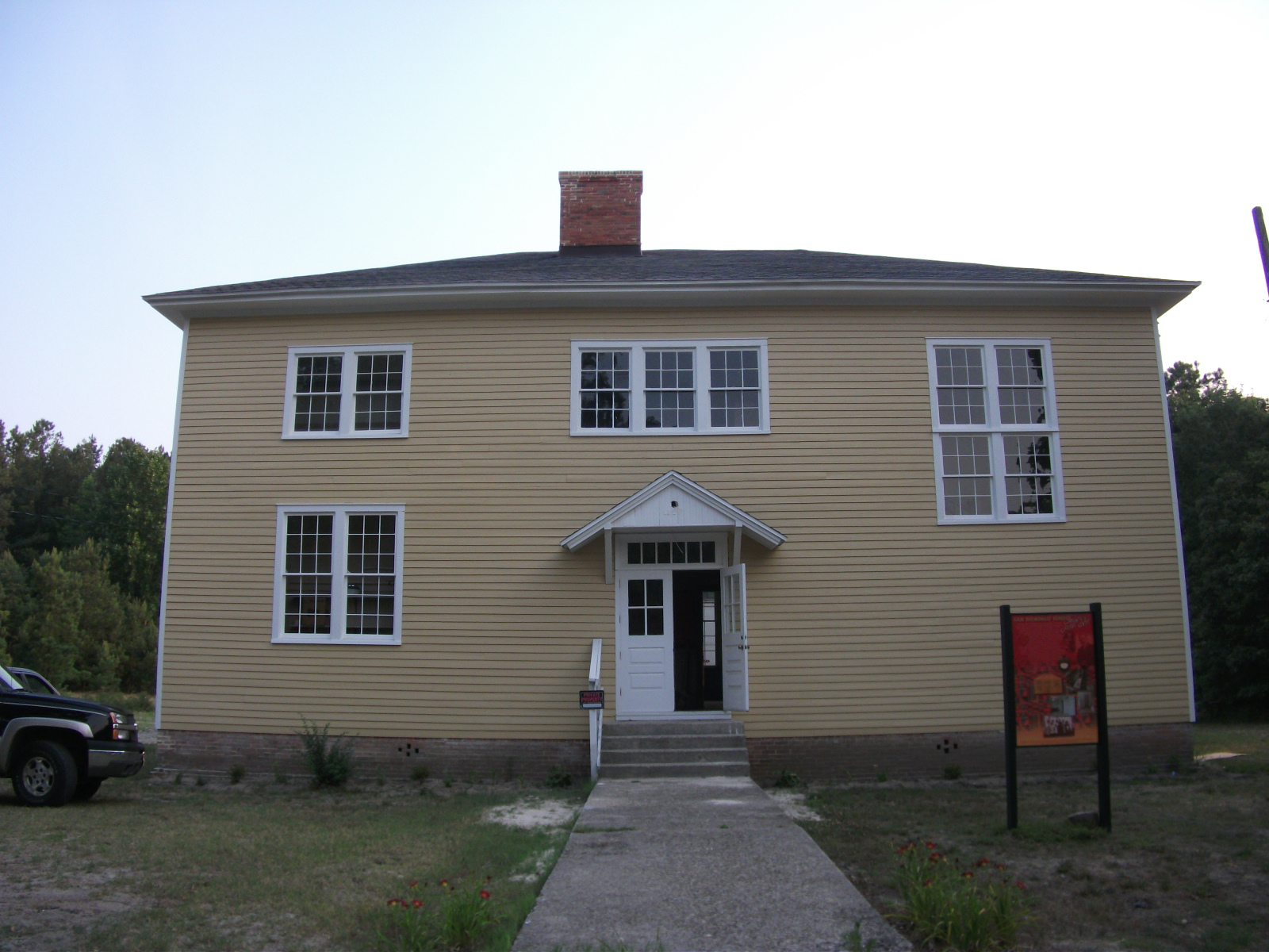 An image of the front of the San Domingo School house, after its restoration. The building was constructed in 1919 as a school for the local black community. This site was selected for a Heritage Fund Grant in 2005.